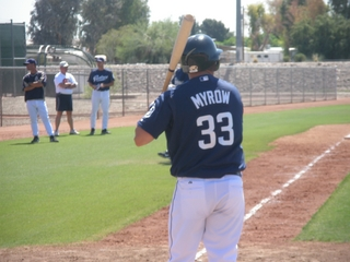 Brian Myrow at the plate in a minor league spring training game, late March 2008. This photo was taken by me. 05:30, 4 April 2008 . . RobHC . . 320×240 (75 KB)